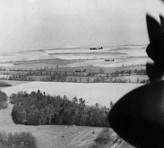 Lancasters of 97 Squadron practice low level formation flying in preparation for the Augsburg raid